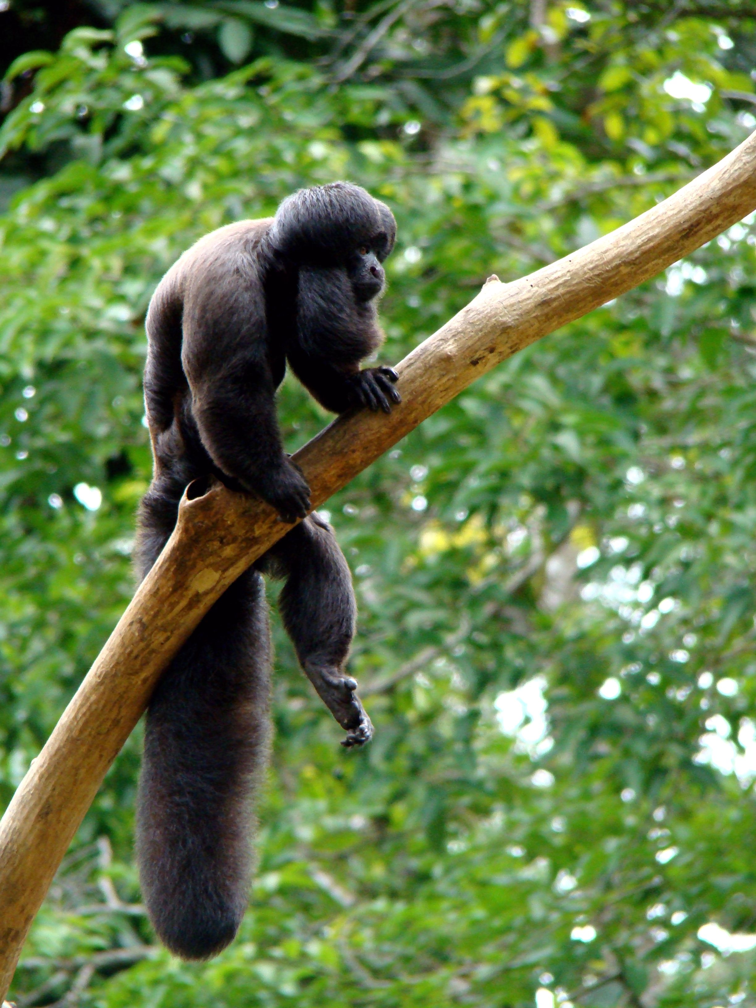 Bearded saki (Chiropotes sp).